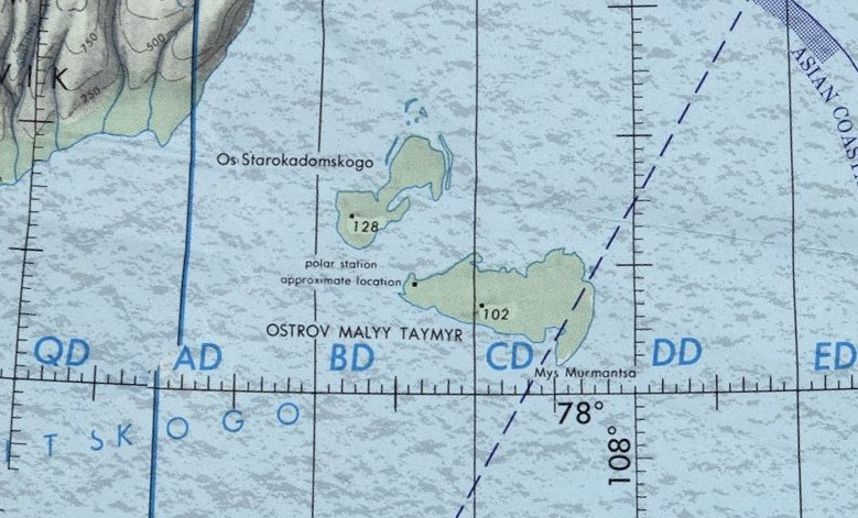 Maly Taymyr Island. Section of 1:1,000,000 scale Operational Navigation Chart, Sheet B-3, 2nd edition.